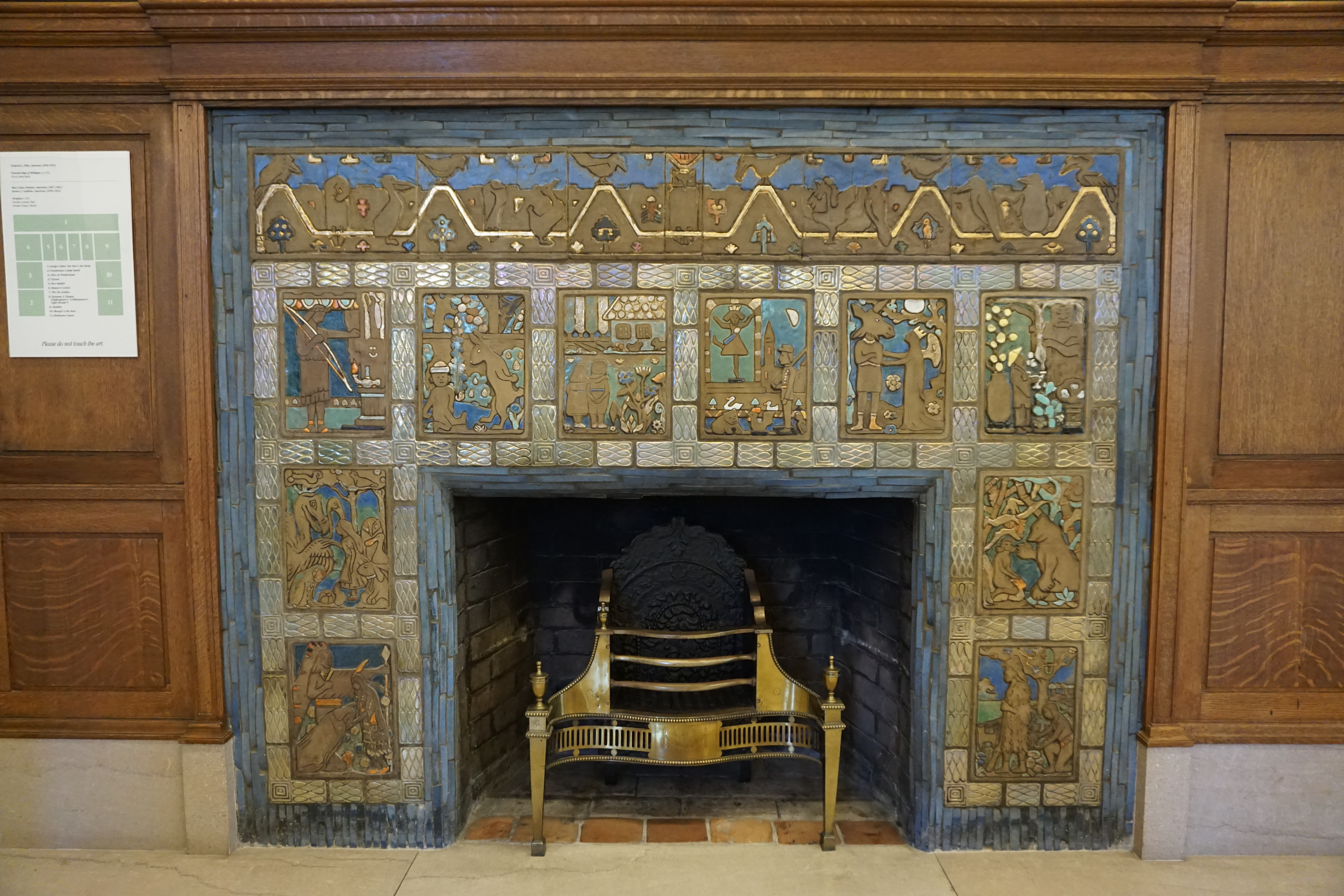 The Pewabic fireplace in the HYPE Teen Center inside the Detroit Public Library (Main Library) in Detroit, Michigan (United States).